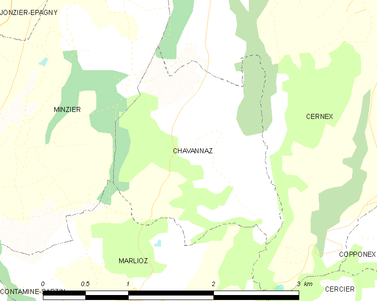 Map of French municipality Chavannaz